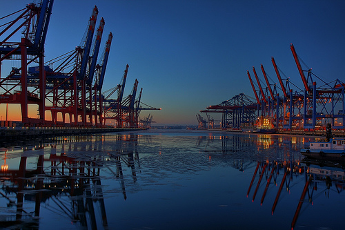 CTB-CTW Container Terminal Burchardkai, Port of Hamburg-Waltershof